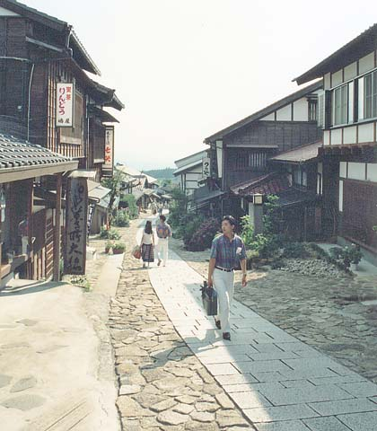 Heading uphill in Magome, Japan.